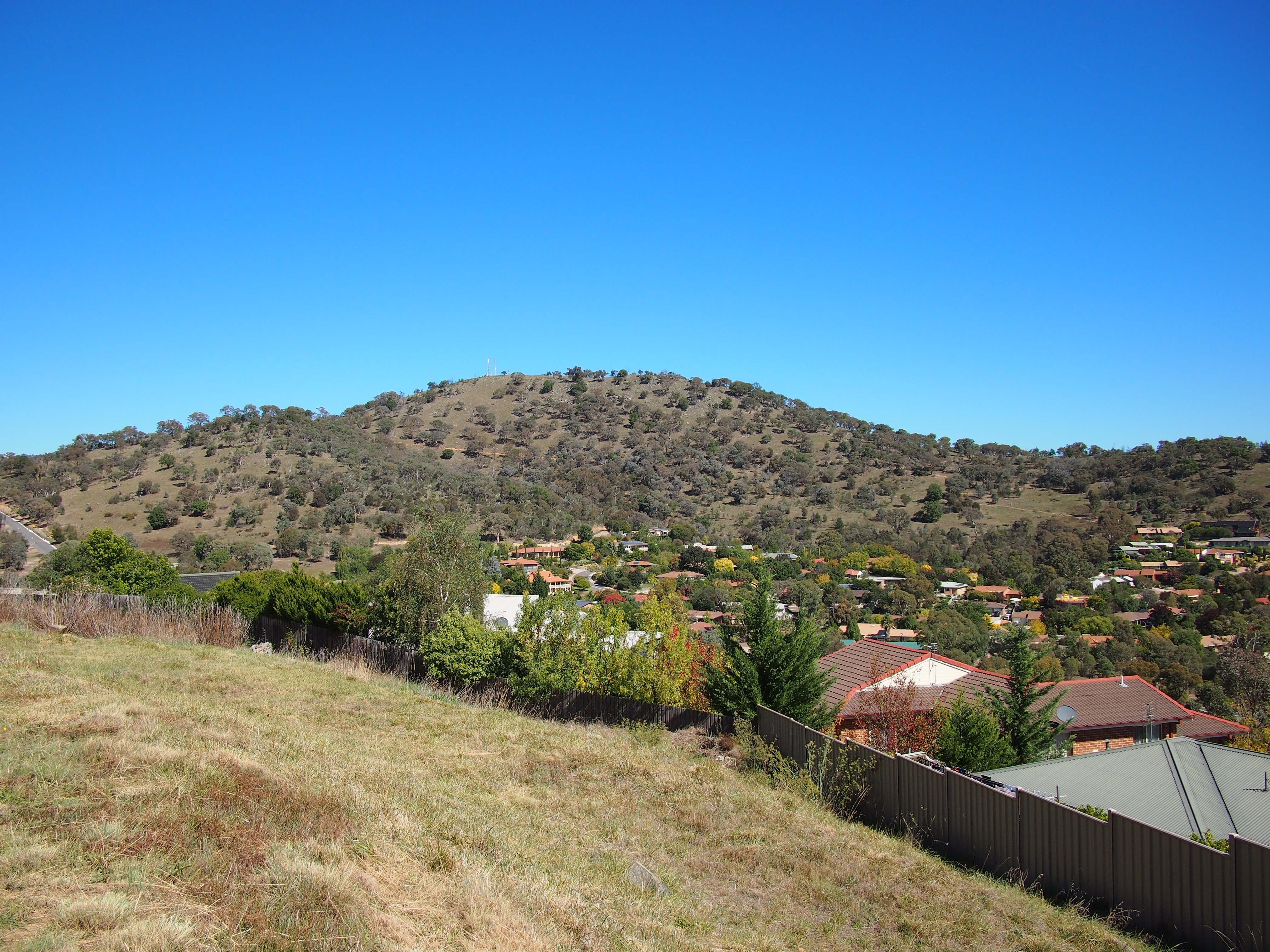 The north face of Tuggeranong Hill viewed from a hill in Chisholm